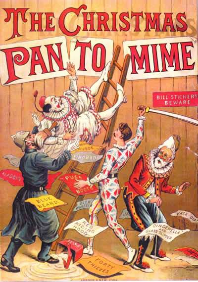 Cover, Pantomime F. Warne & Co., 1890 color lithograph, 1890